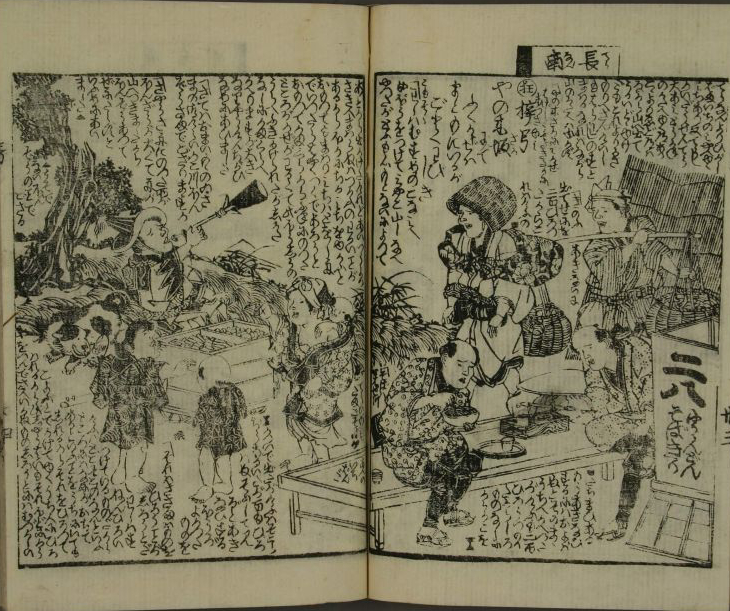 Shokoku Dochu Kane No Waraji No,18 Chounan by Ikku Jippensha. Painted by Tsukimaro kitagawa